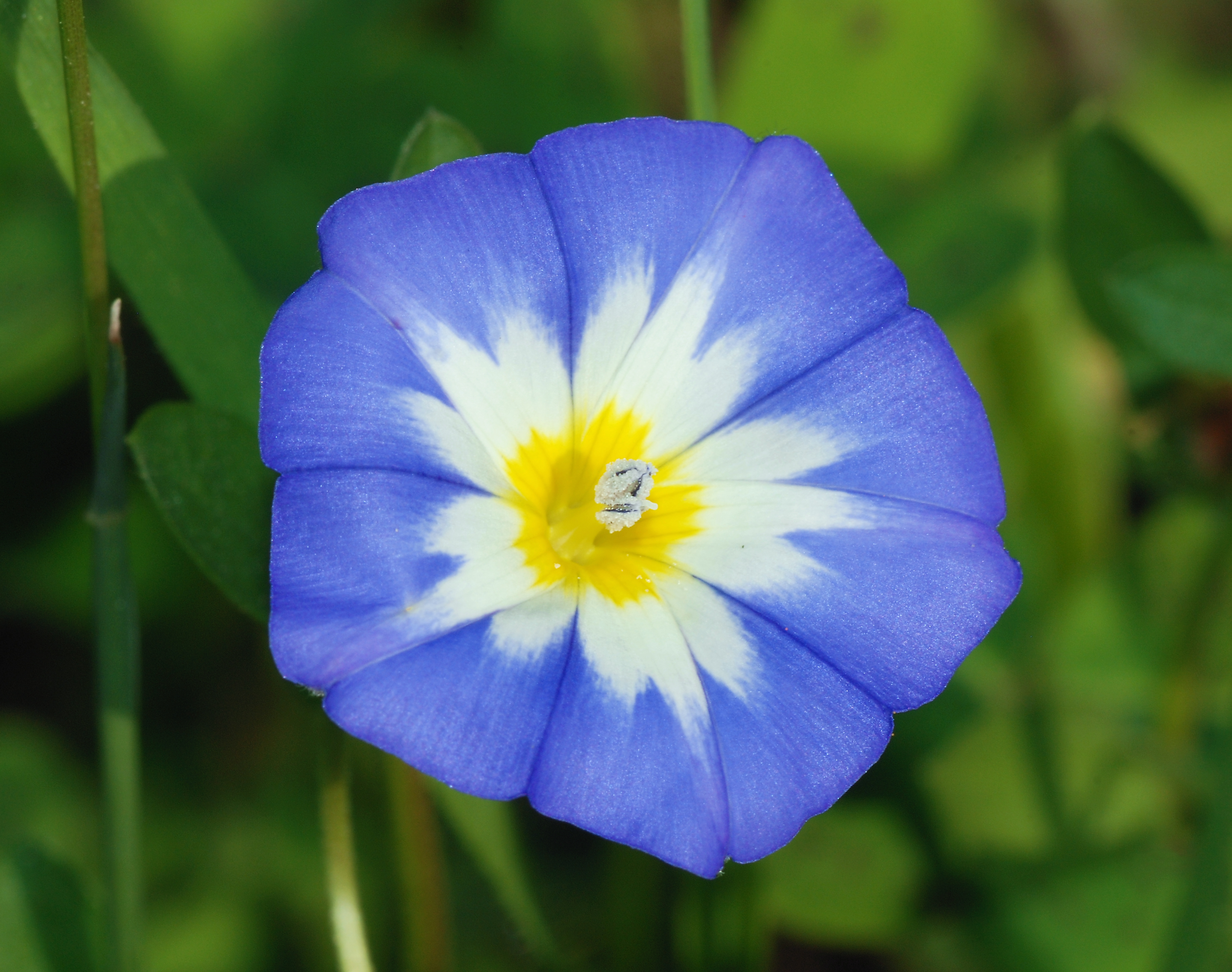 A Dwarf Morning Glory (Convolvulus tricolor)